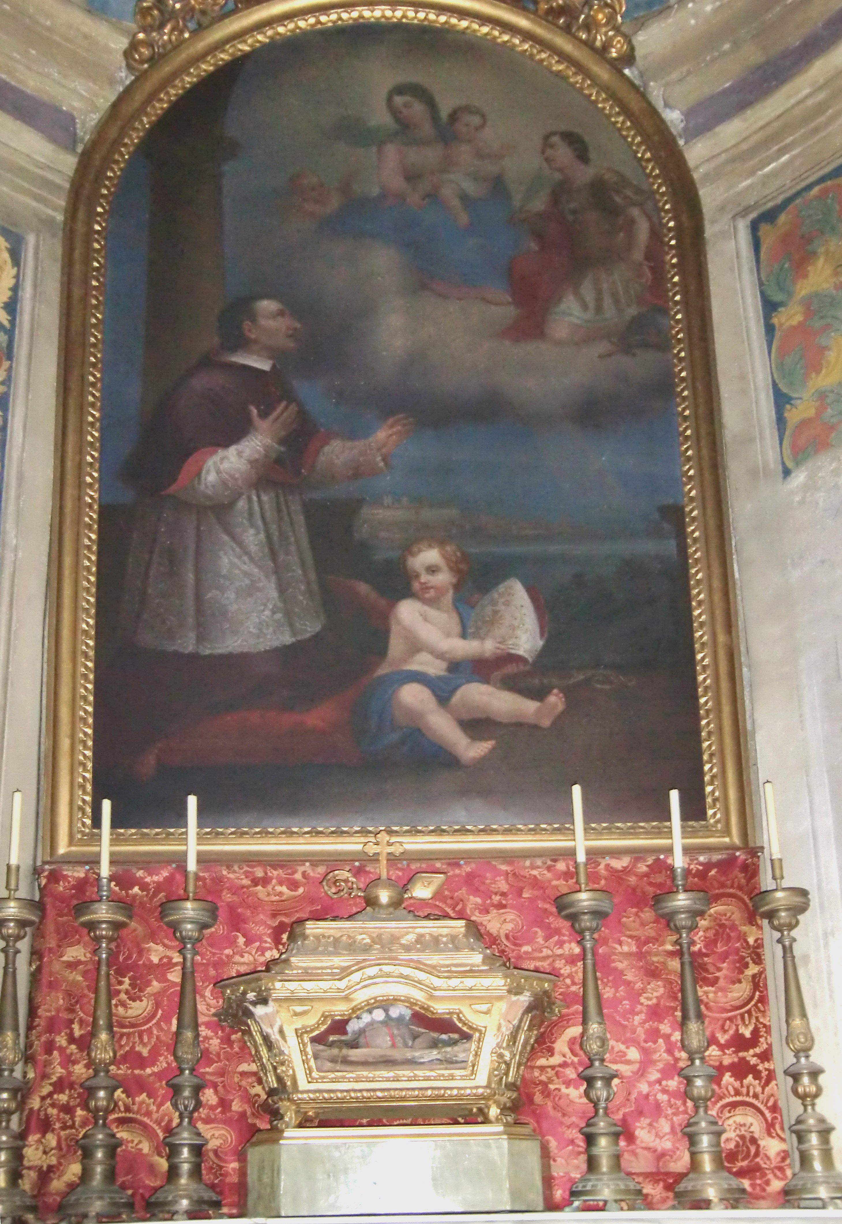 Ivrea, Cathedral, Altar of the blessed Warmondo (the bishop who built the cathedral)